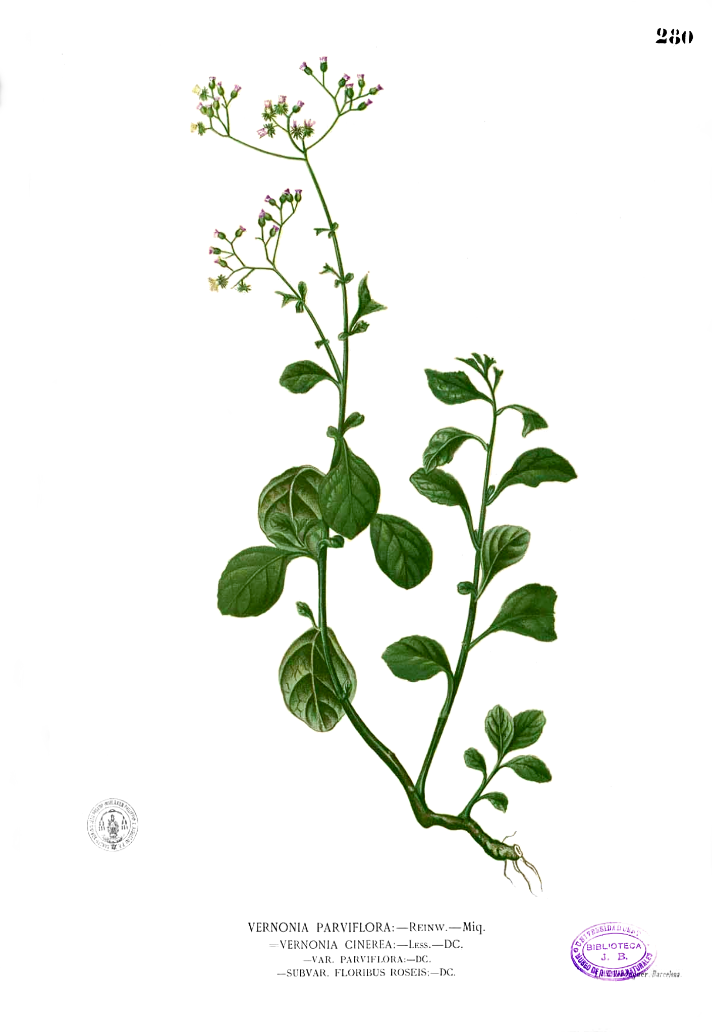 Plate from book